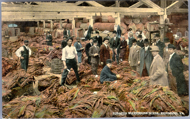 Postmarked 1918. "A Scene Typically Southern is this marketing of bright leaf Tobacco at a warehouse in Richmond, Va. From the surrounding country tobacco farmers have brought the products of their fields to be sold by the auctioneer to the highest bidder. Gathered around the piles of tobacco, (each pile weighed and marked) are the shrewd, experienced representatives of large corporations who quickly appraise and bid for each farmer's product. Sales are speedy, and the farmer is paid spot cash. In the back ground are the large hogsheads into which the tobacco is stored until required for use at the factories."